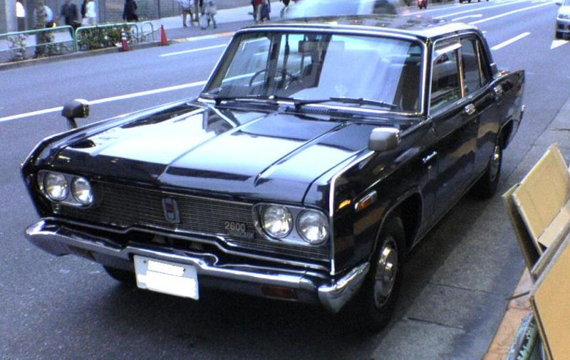 Mitsubishi Debonair 1st Generation